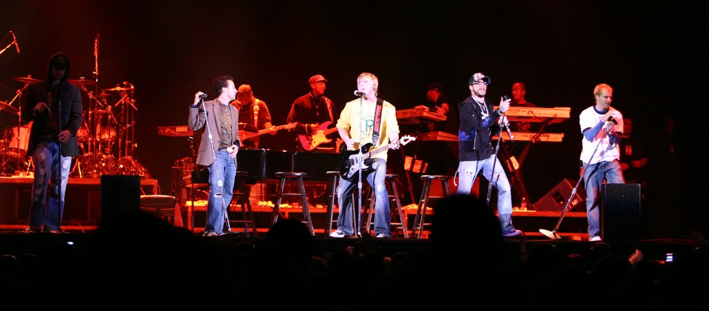 The Backstreet Boys performing at KISS 106.1 Jingle Bell Bash 8.